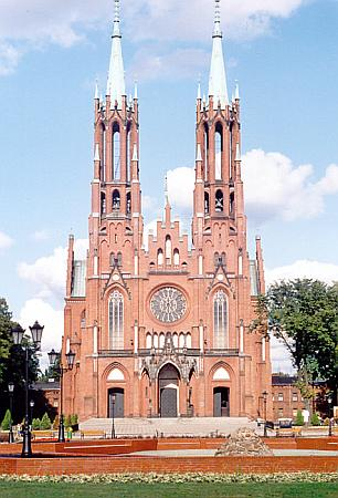 Neo-gothic church in Żyrardów, built in 1900–1903.